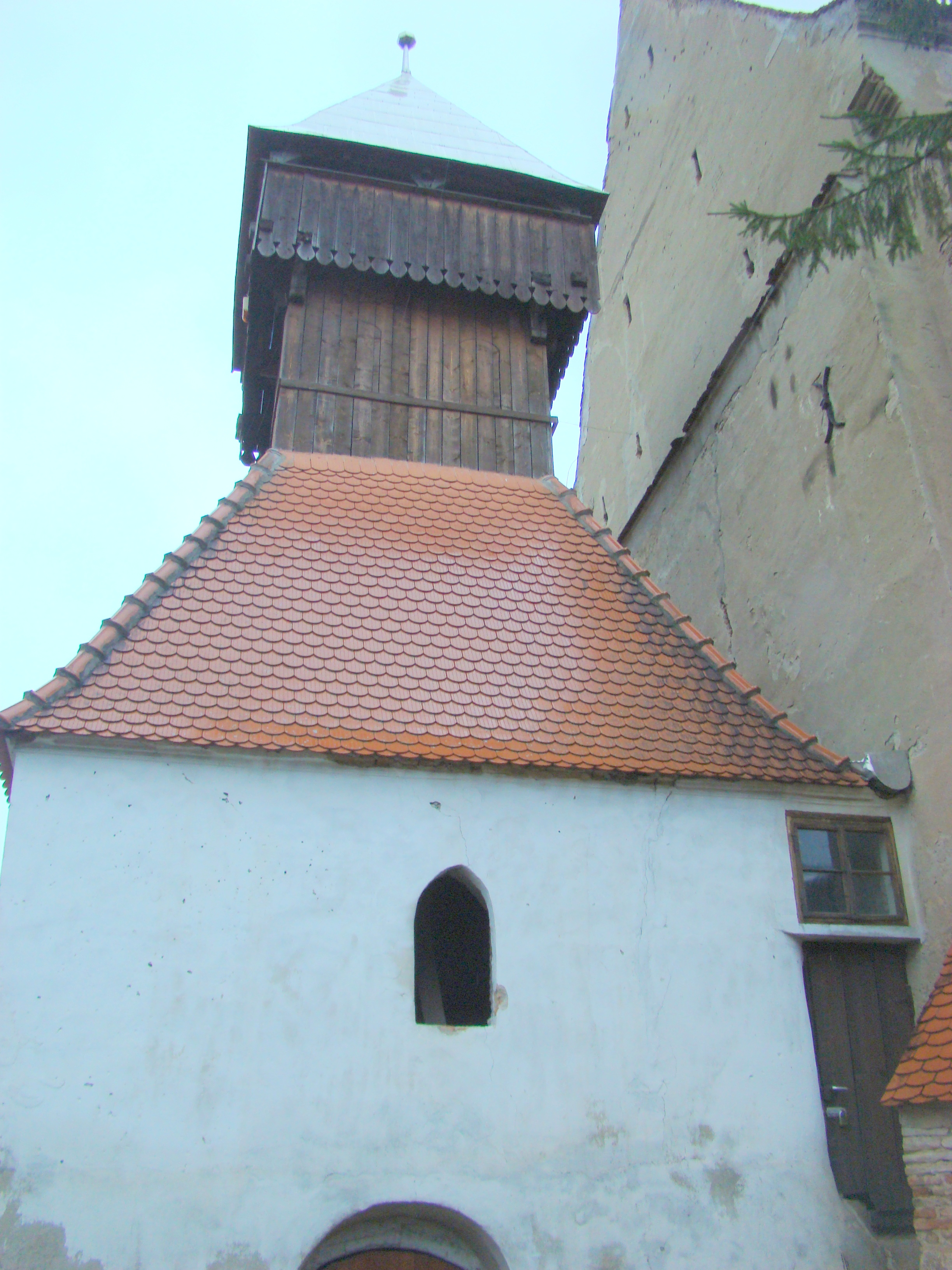 Lutheran church in Dupuș, Sibiu County, Romania